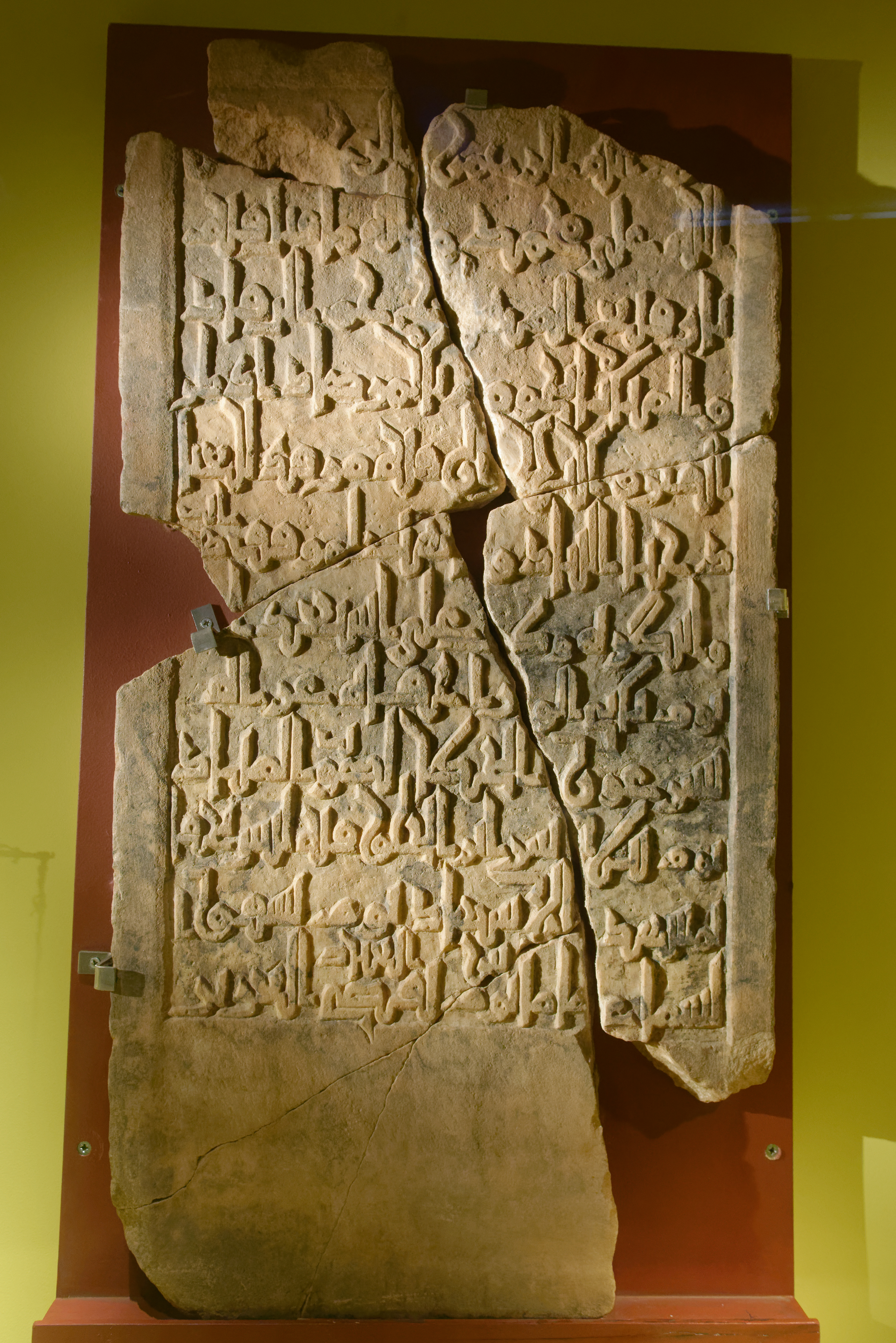 Funerary stele in Kufic script mentioning sovereigns of a Muslim dynasty. Made in Almería (?), Almoravid Spain, and found in Gao-Saney, now in Mali.